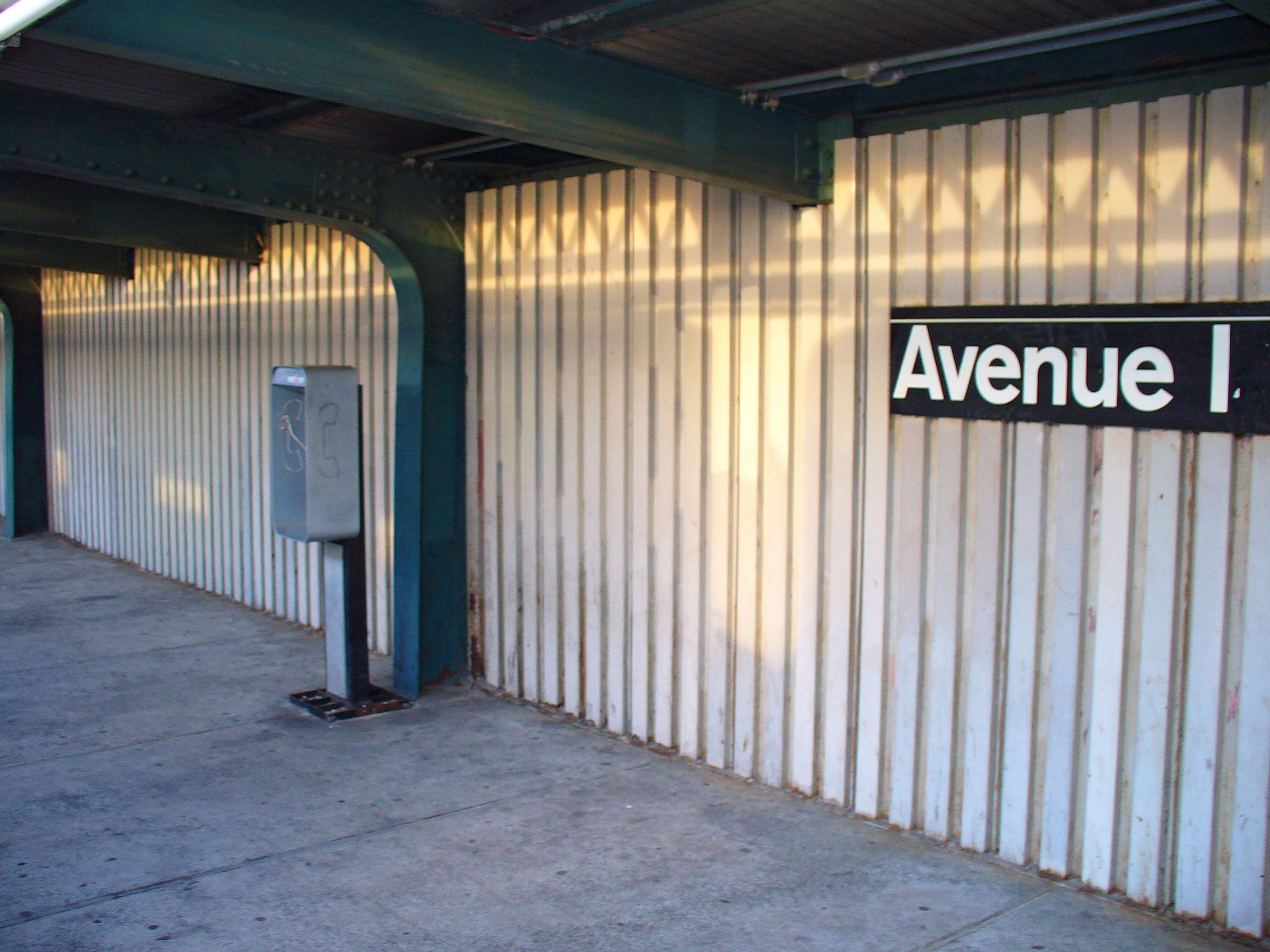 Avenue I NYC Subway Station on the D Line by David Shankbone